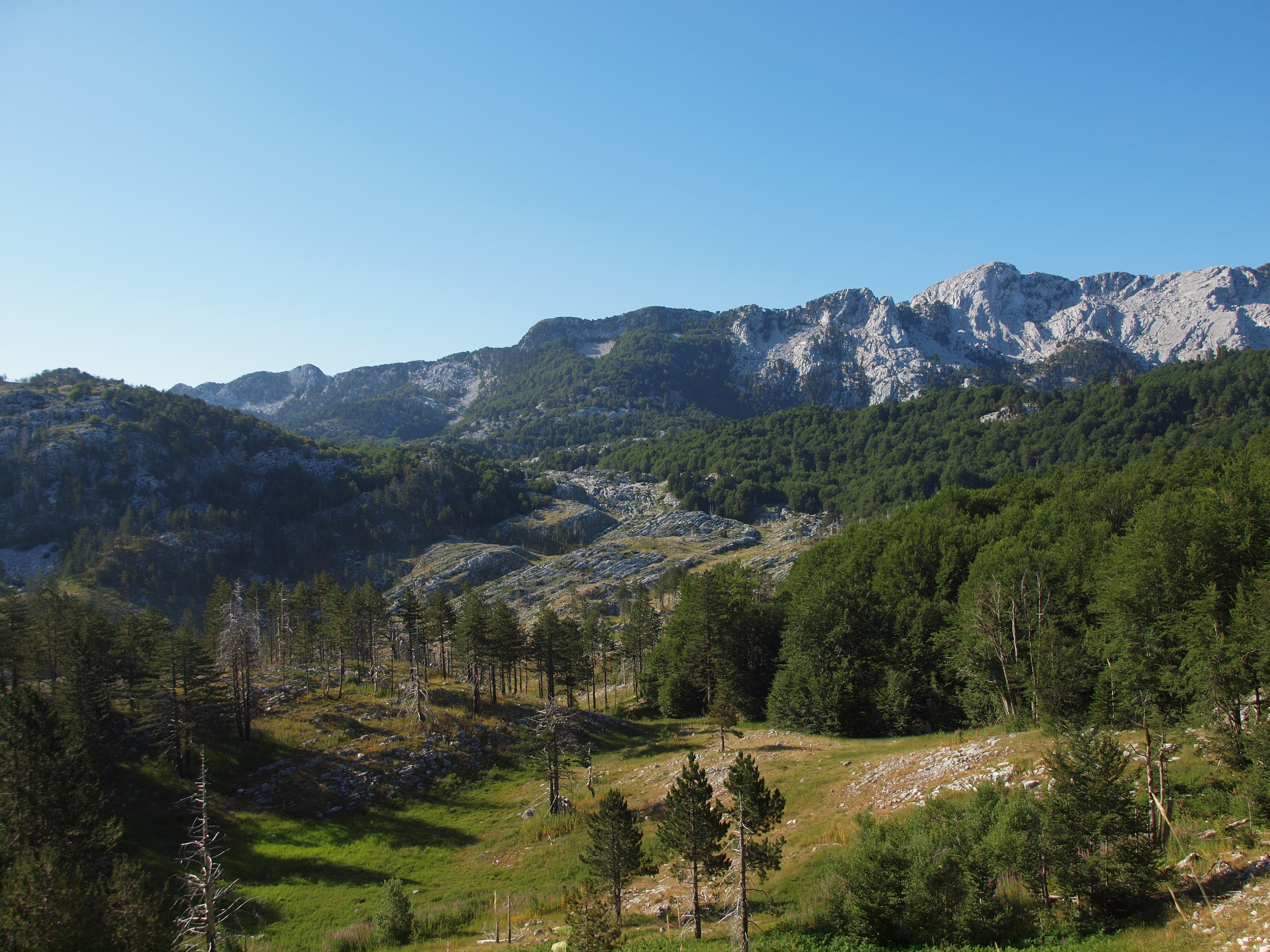 Abieto-Fagetum illyricum and Aceri visianii Fagetum of the mixed decidous forests and Pinion heldreichii at the upper Levels on Orjen